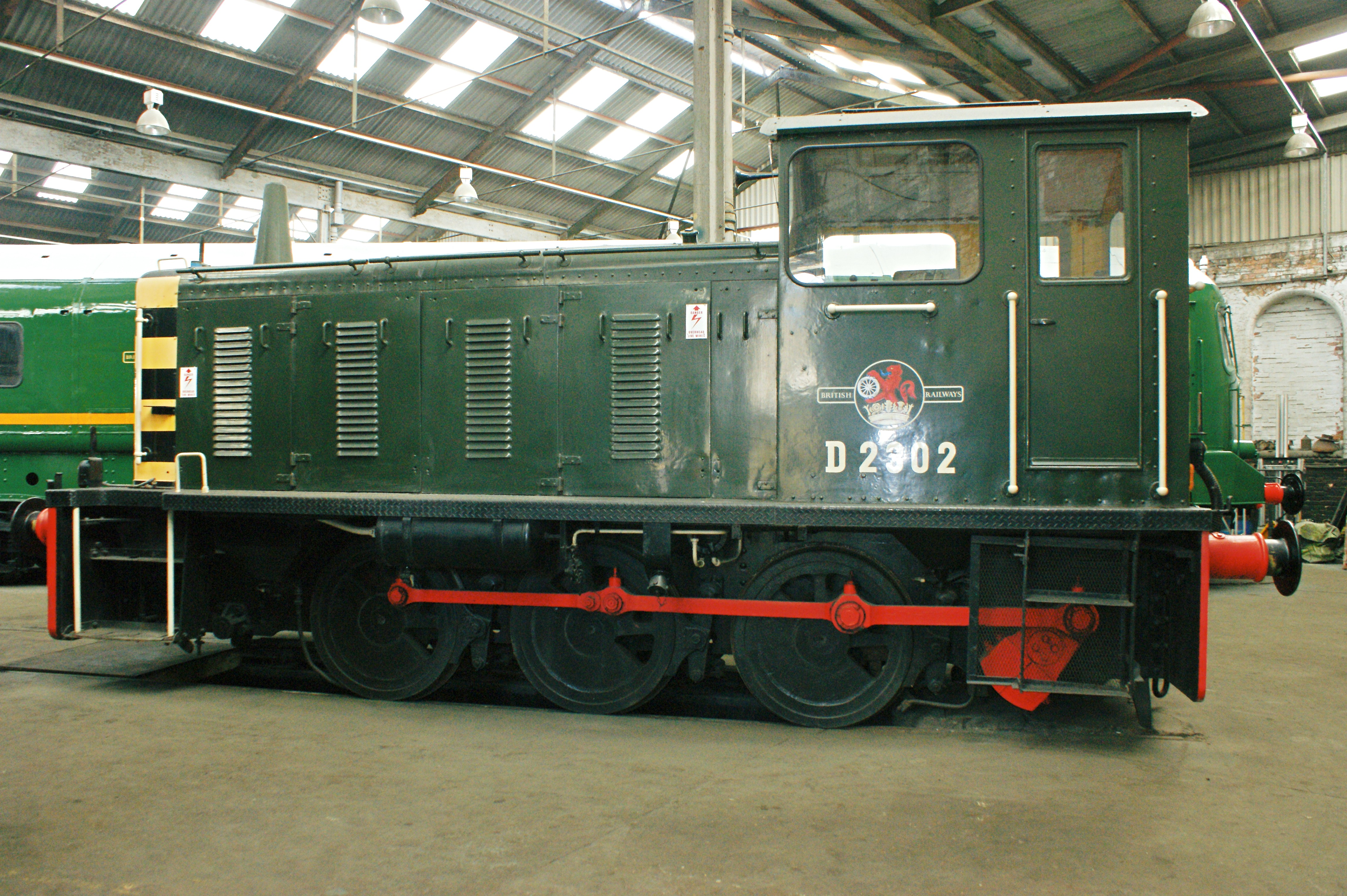 Preserved Drewry Class "04" 204 hp 0-6-0 No.D2302 (ex-11282; never renumbered in "04" series) in BR green and with "Saxa" chimney at Barrow Hill, 08/08.